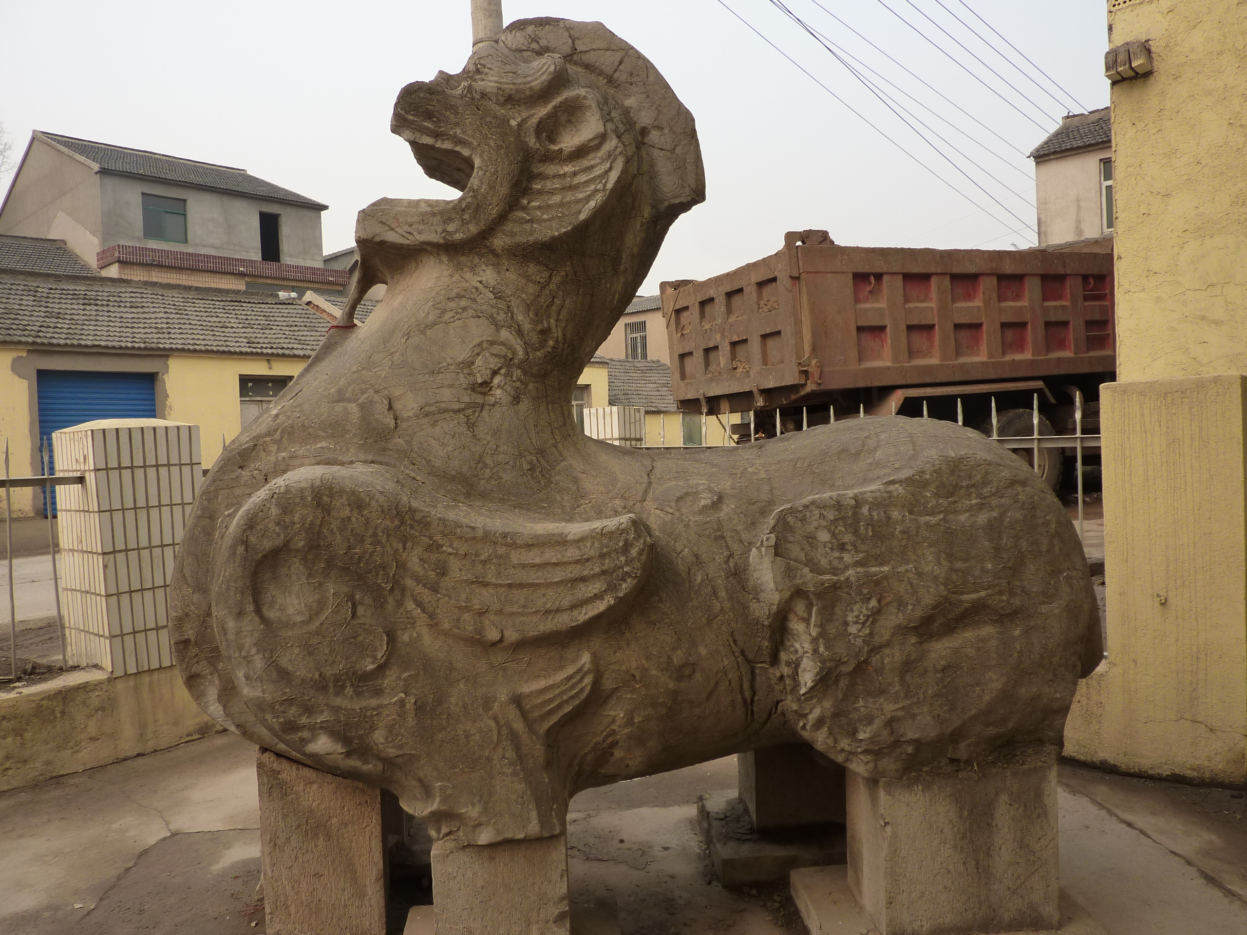 The Chuning Tomb, in the present day Qilin Town near Nanjing, is the tomb of Emperor Wu of Liu Song (363–422). All that remains there are two qilin statues, facing each other across a mostly residential street in the appropriately named Qilinpu ("Qilin capture") neighborhood of the Qilin Town.